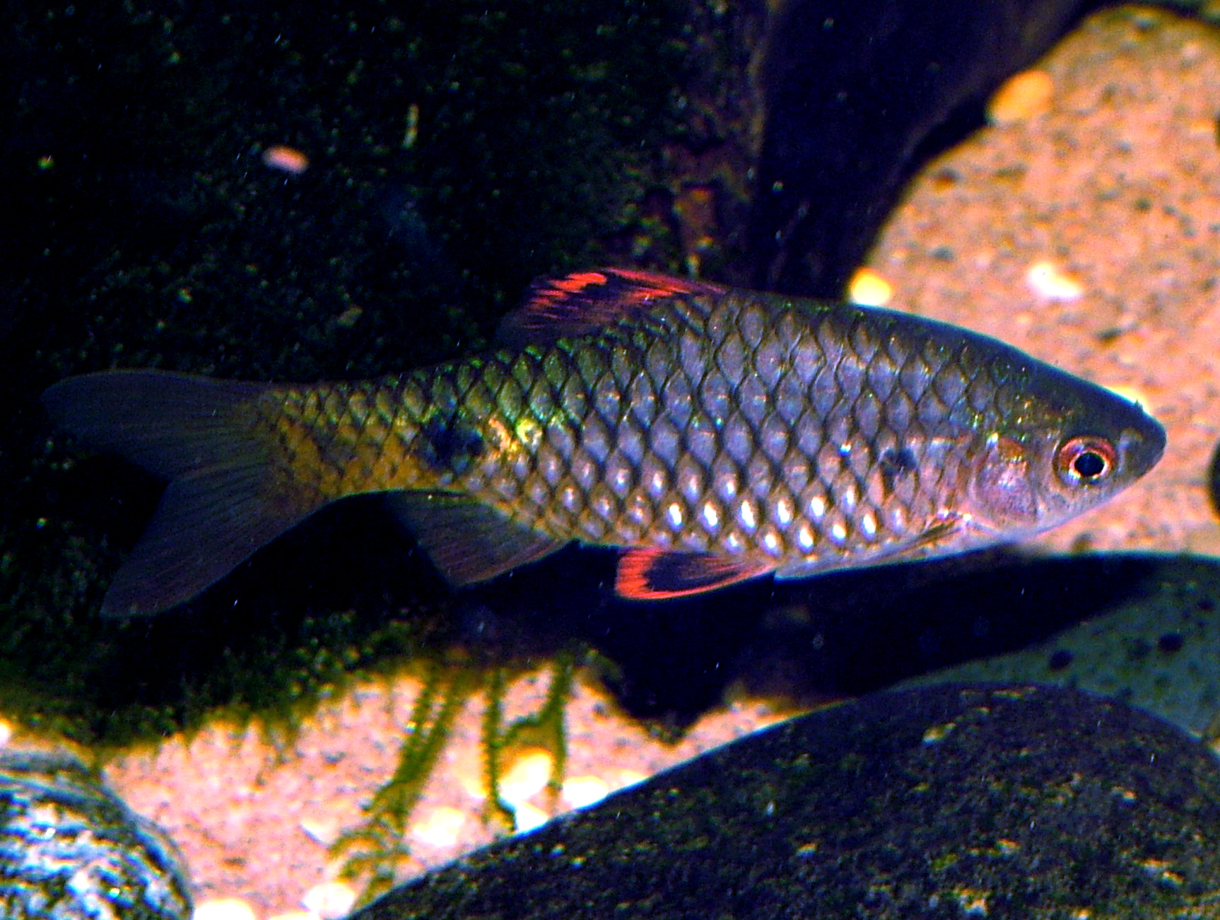 Stoliczkae's barb, Puntius stoliczkanus